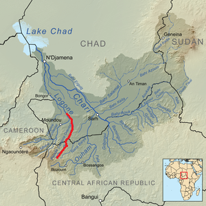 Map showing the Chari River drainage basin with the Pendé River in Red.